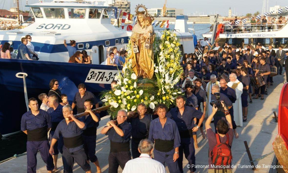 Processó de la Verge del Carme (16 juliol) al Serrallo Tarragona